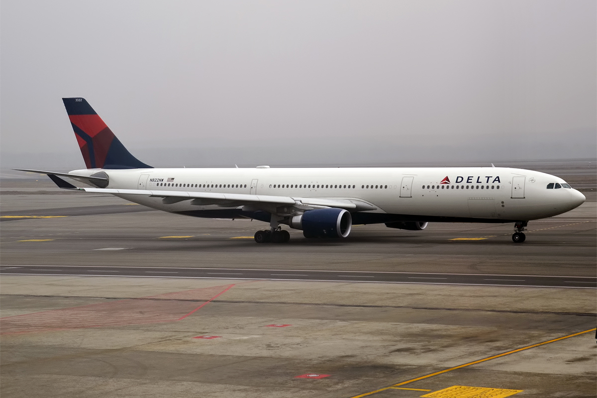 Delta Air Lines, N822NW, Airbus A330-302 at Milan Malpensa Airport